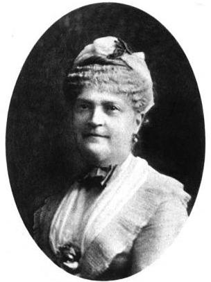 Portrait of Anna Eliot Ticknor (d.1897) of Boston, Mass.